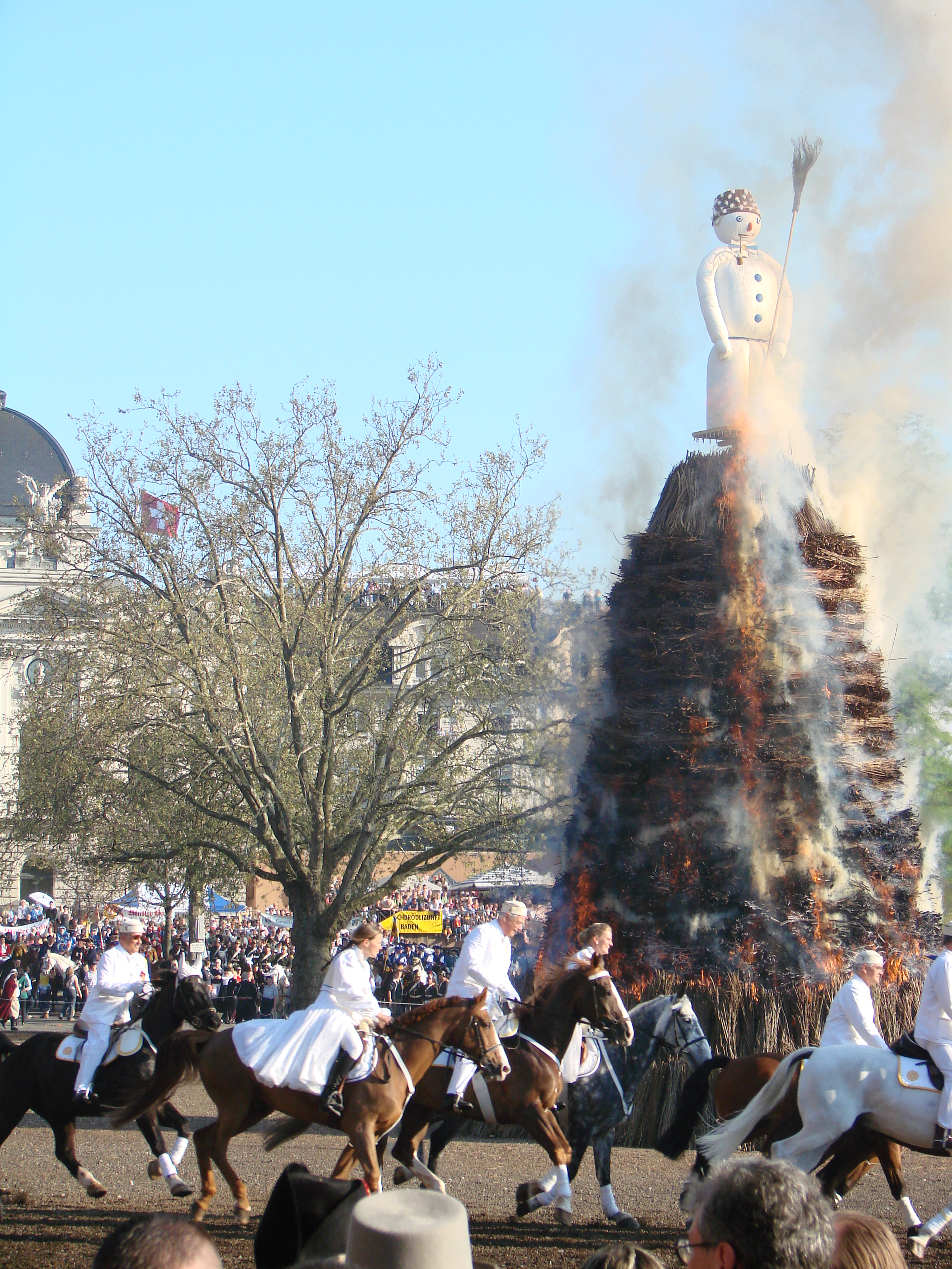 Böögg burning with horse riders turning around (Opera house in backgroung, Bellevue place, Zurich city, April 2007).